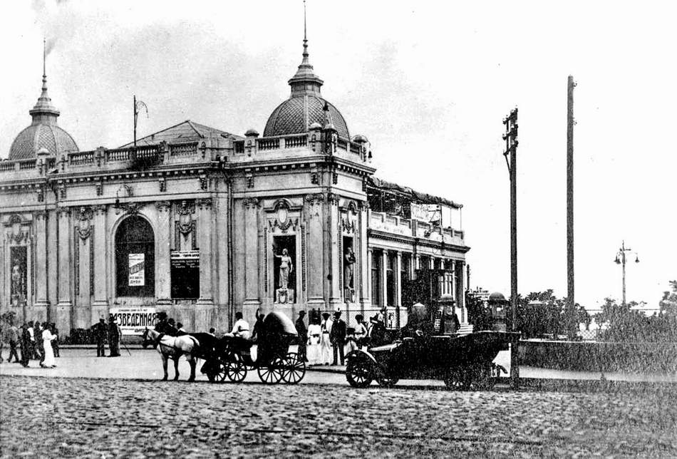 Baku. Phenomen cinema (today - Puppet Theatre)